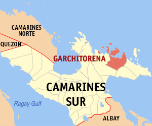 Map of Camarines Sur showing the location of Garchitorena